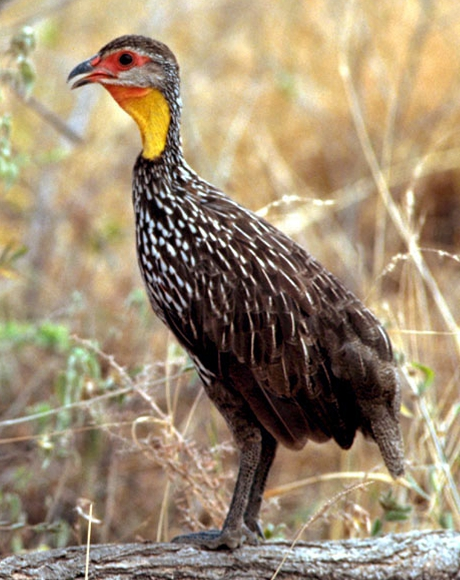 Yellow-necked Spurfowl Pternistis leucoscepus, Kenya